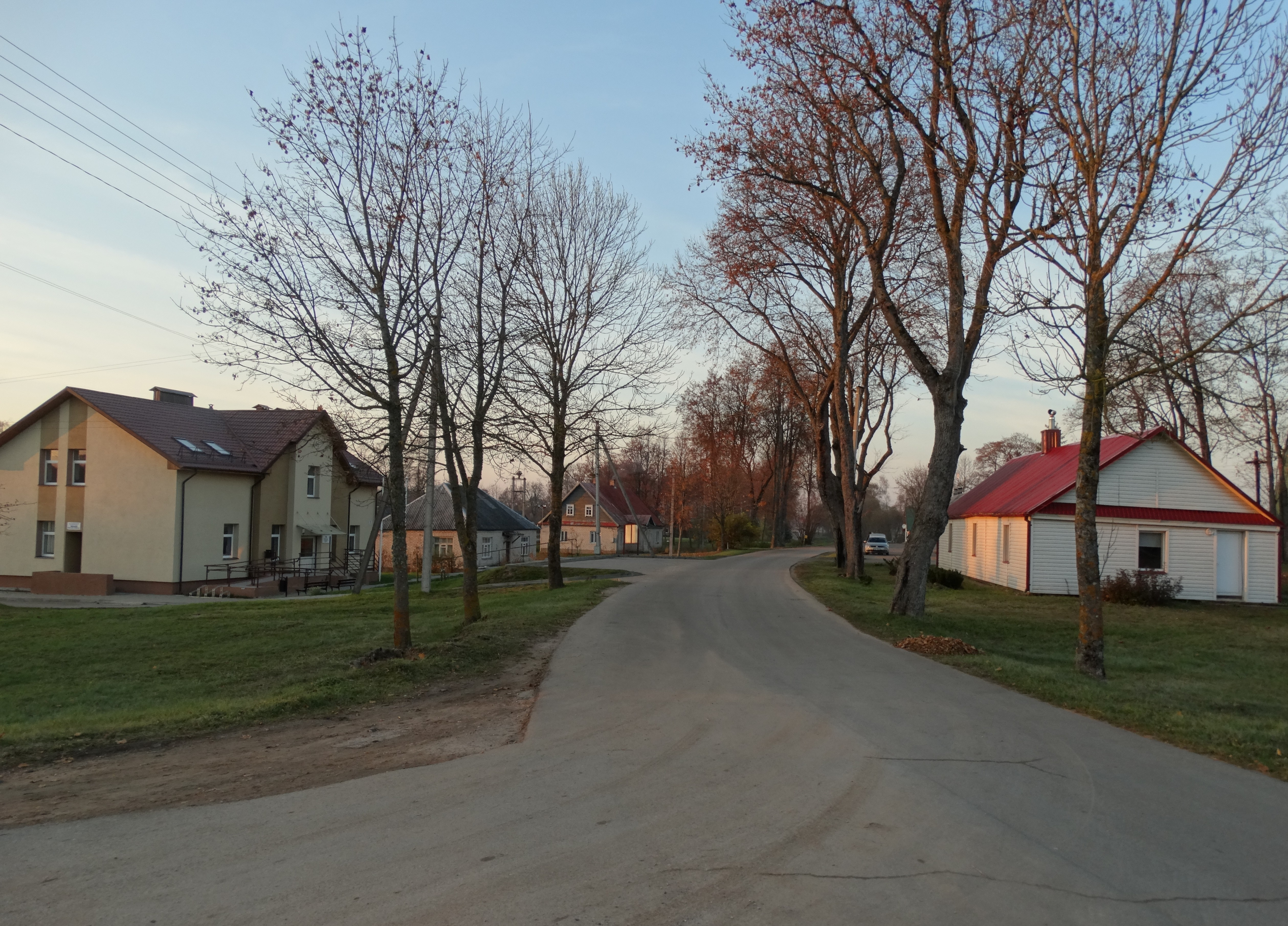 Imbradas, Zarasai district, Lithuania